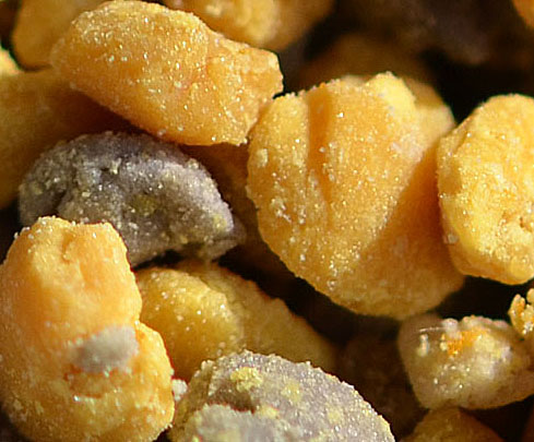 Frozen balls of pollen